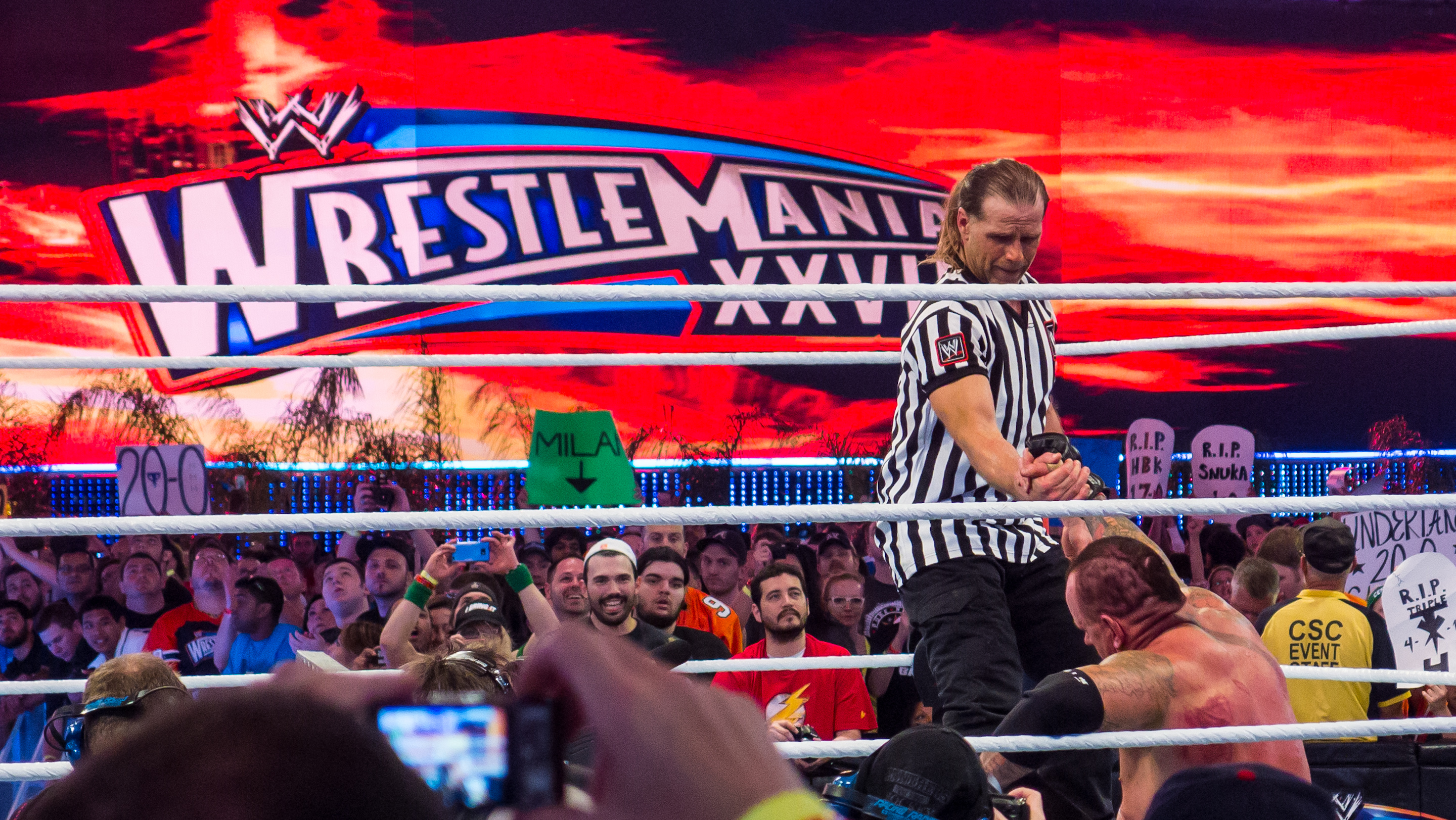 Triple H vs Undertaker at Wrestlemania XXVIII